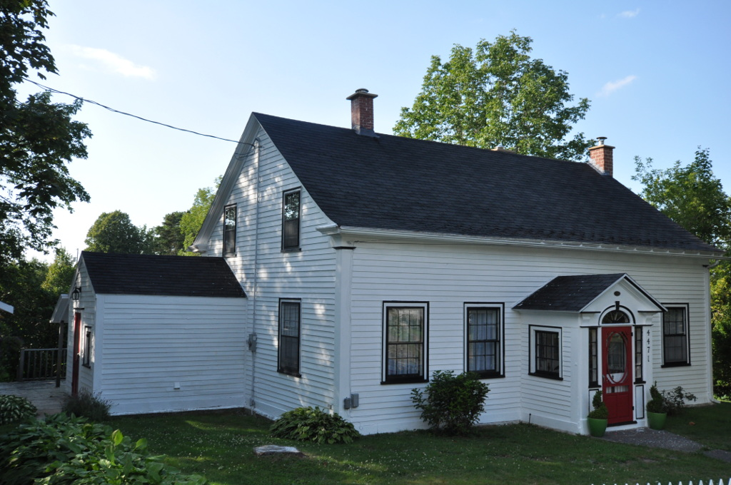 Stephen Payson Homestead, Weymouth, Nova Scotia.